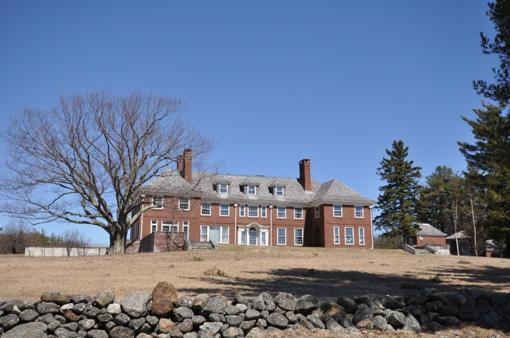 Skyfield, Jones House in the Beech Hill Summer Home District, Harrisville, New Hampshire. Architect: Lois Howe, 1916.